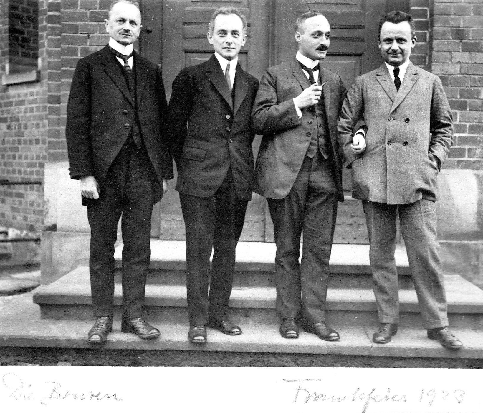 Ceremony 1923 in honour of Franck, the big bugs: Max Reich, Max Born, James Franck and Robert Pohl.